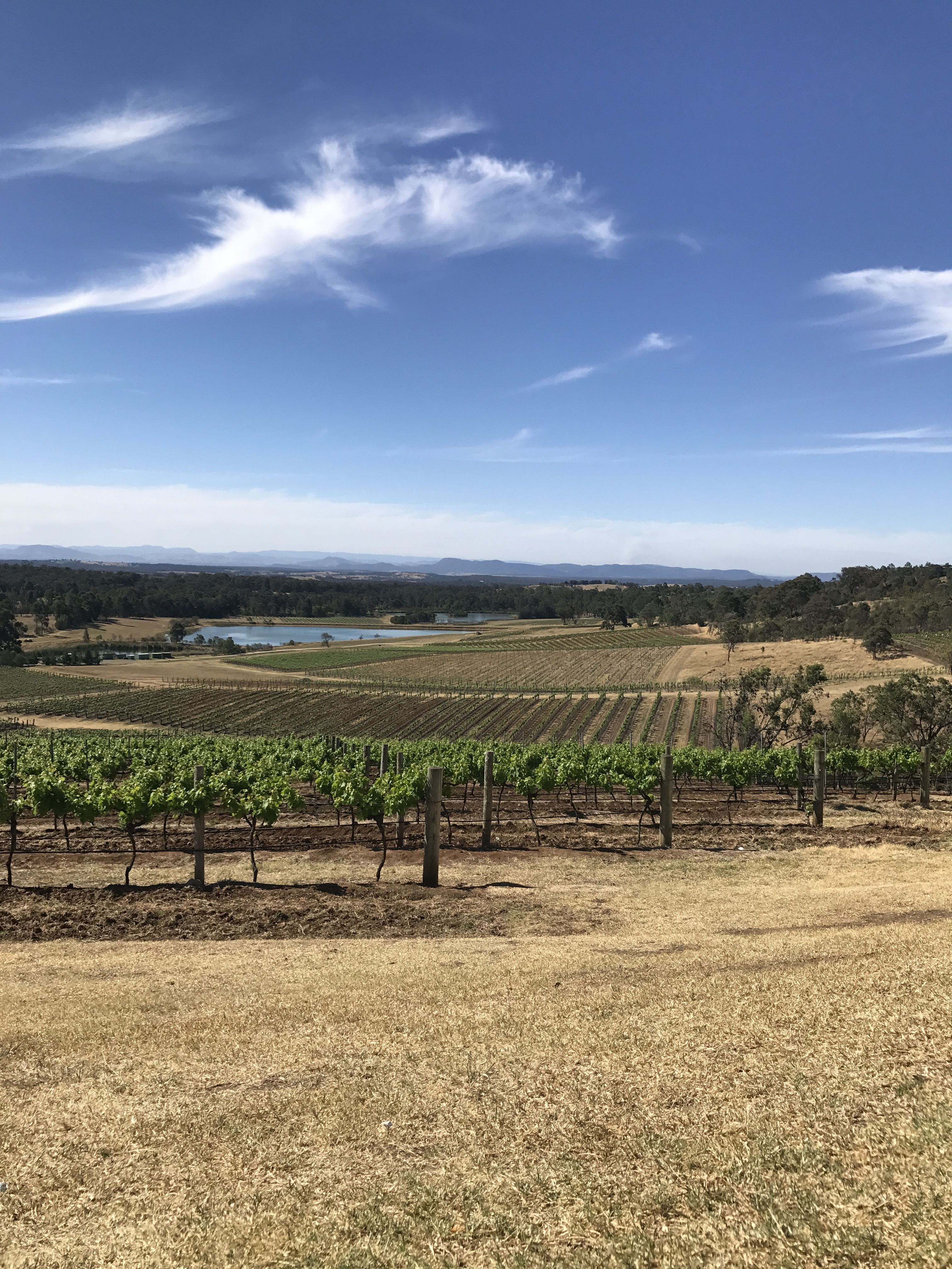 This is an image of a vineyard in Pokolbin, NSW, Australia